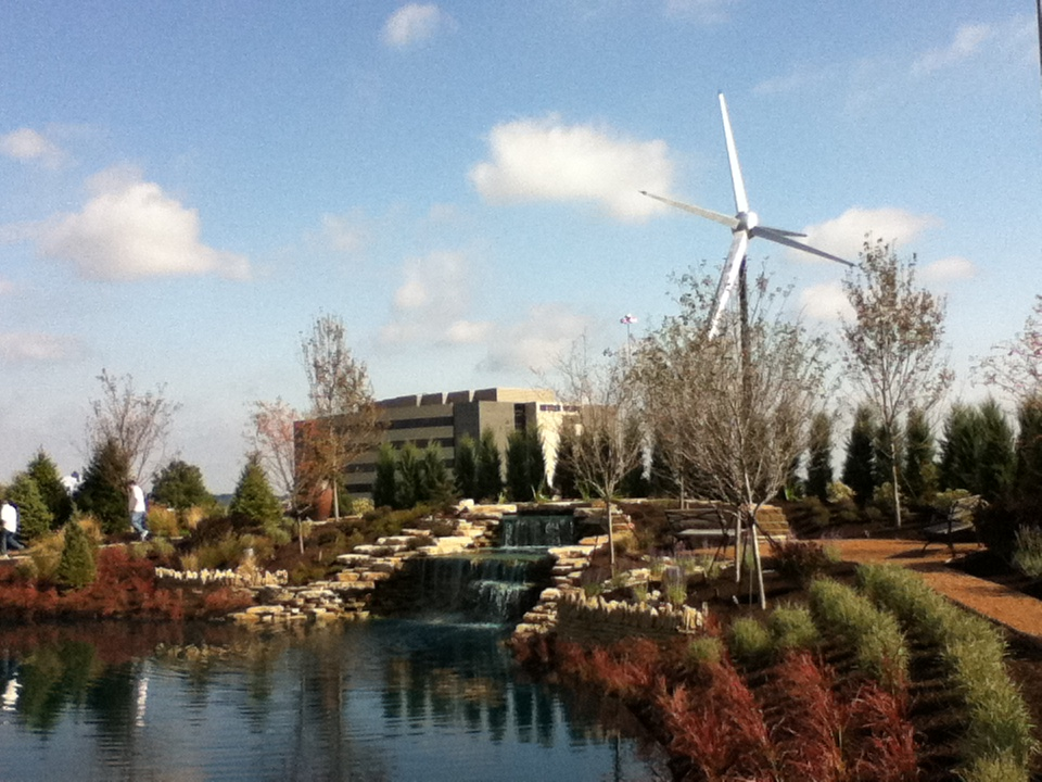 Founder's Park: Wide View